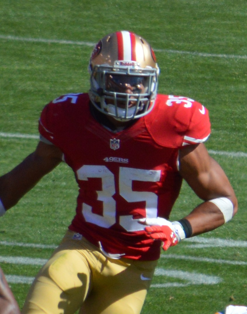 San Francisco 49ers safety, Eric Reid, in his NFL debut against the Green Bay Packers.